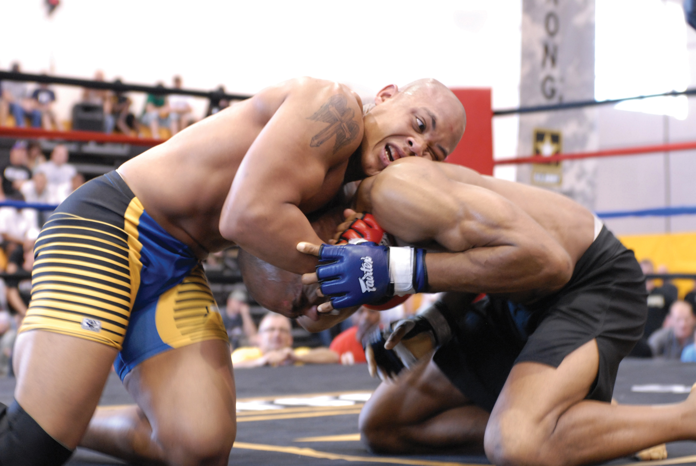 More than 2500 spectators attended the championship. Twenty eight Soldiers from around the Army competed in the finals Sunday in seven weight classes.